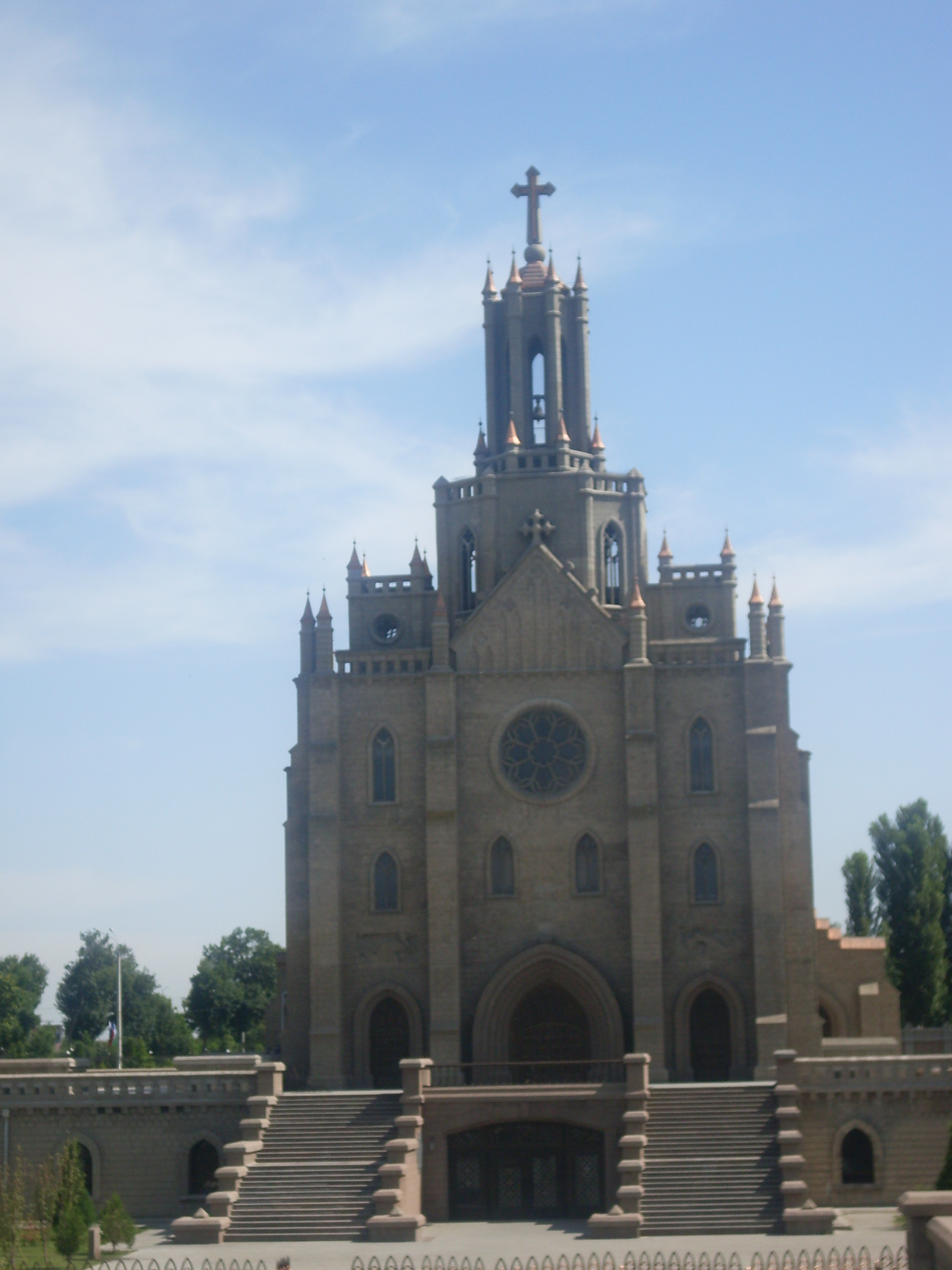 Sacred Heart Cathedral, Tashkent